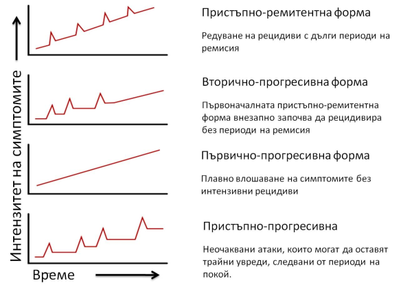 Progression types of Multiple sclerosis